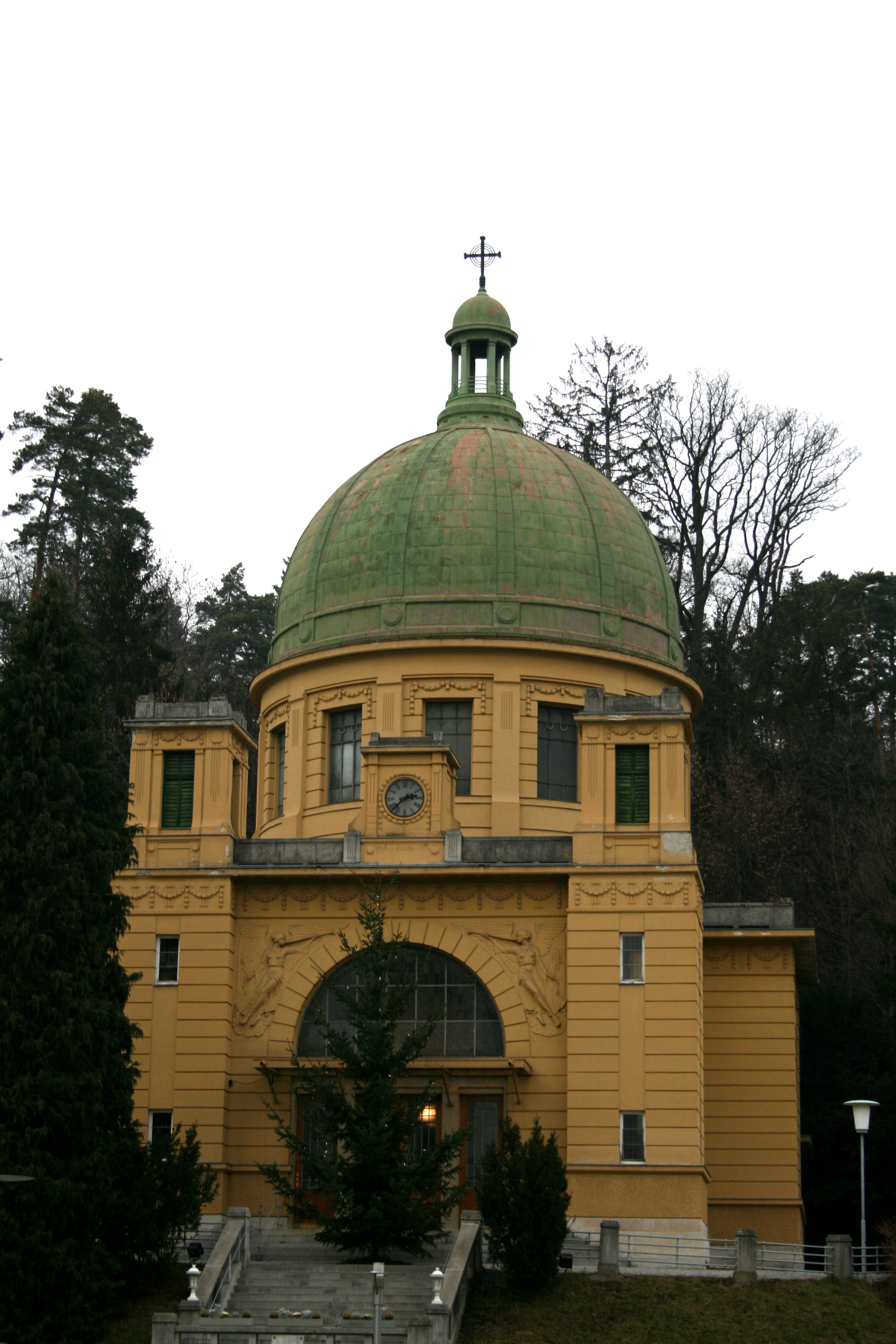 Church "Heiligster Erlöser" in Graz, Austria, Europe